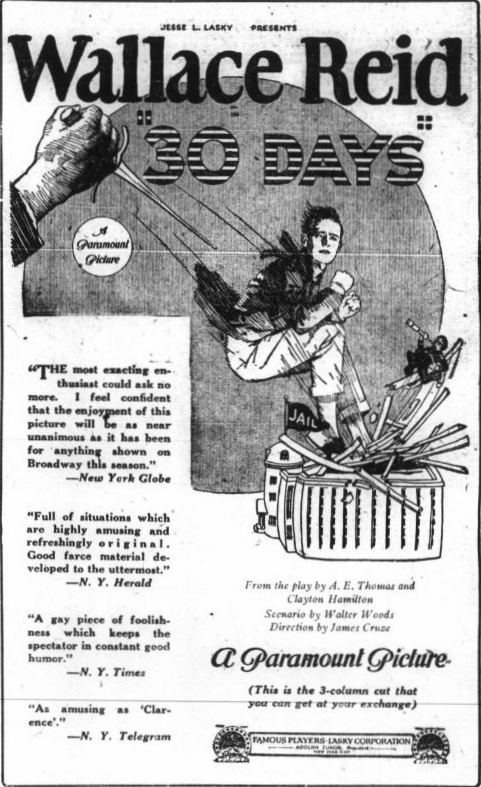 Advertisement for the American comedy film Thirty Days (1922) with Wallace Reid, on page 41 of the December 15, 1922 Variety.